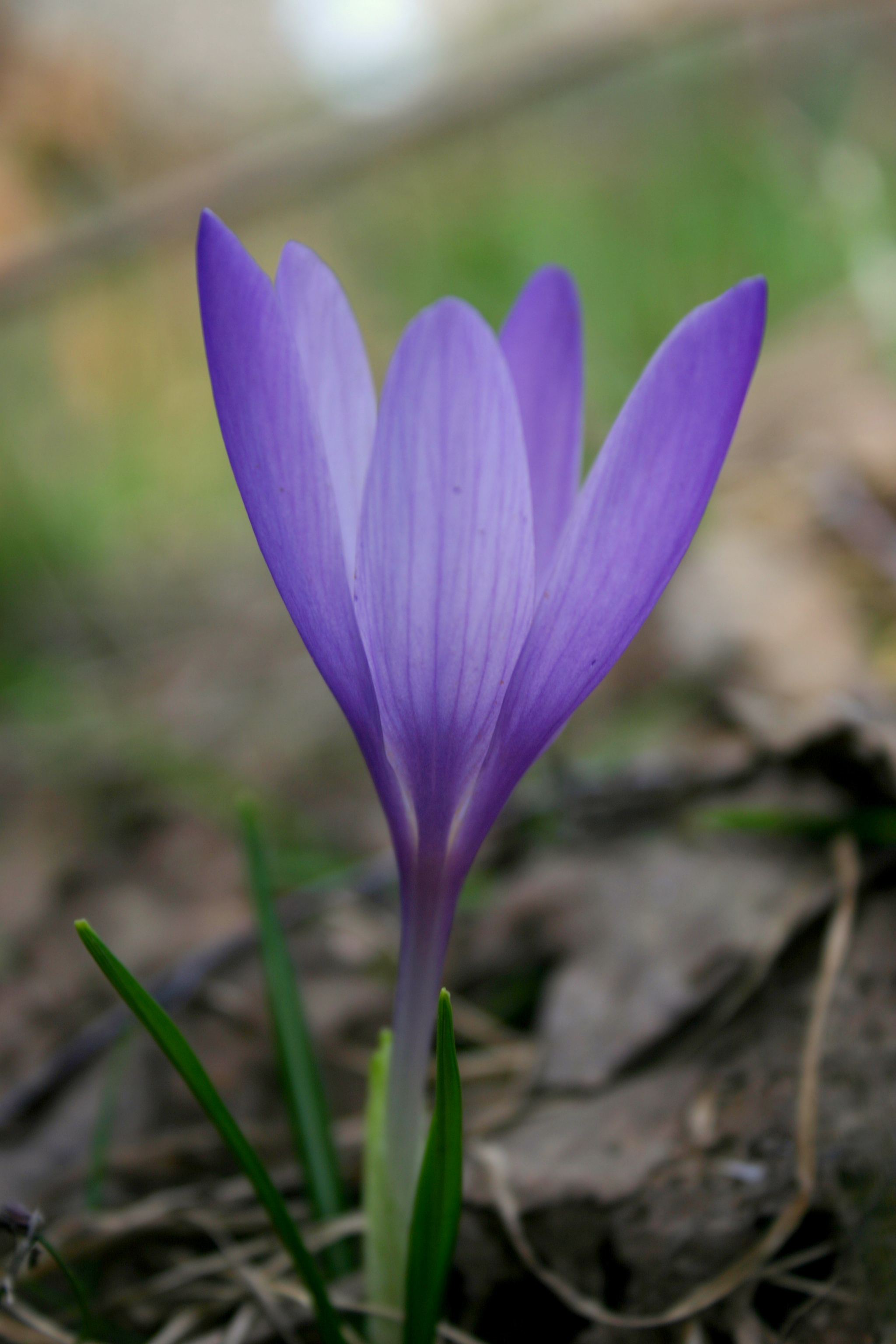 Crocus (English plural: crocuses or croci) is a genus of flowering plants in the iris family comprising 90 species of perennials growing from corms. Many are cultivated for their flowers appearing in autumn, winter, or spring. Crocuses are native to woodland, scrub, and meadows from sea level to alpine tundra in central and southern Europe, North Africa and the Middle East, on the islands of the Aegean, and across Central Asia to Xinjiang Province in western China.